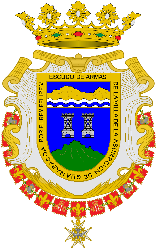 Coat of Arms of Guanabacoa (Cuba)